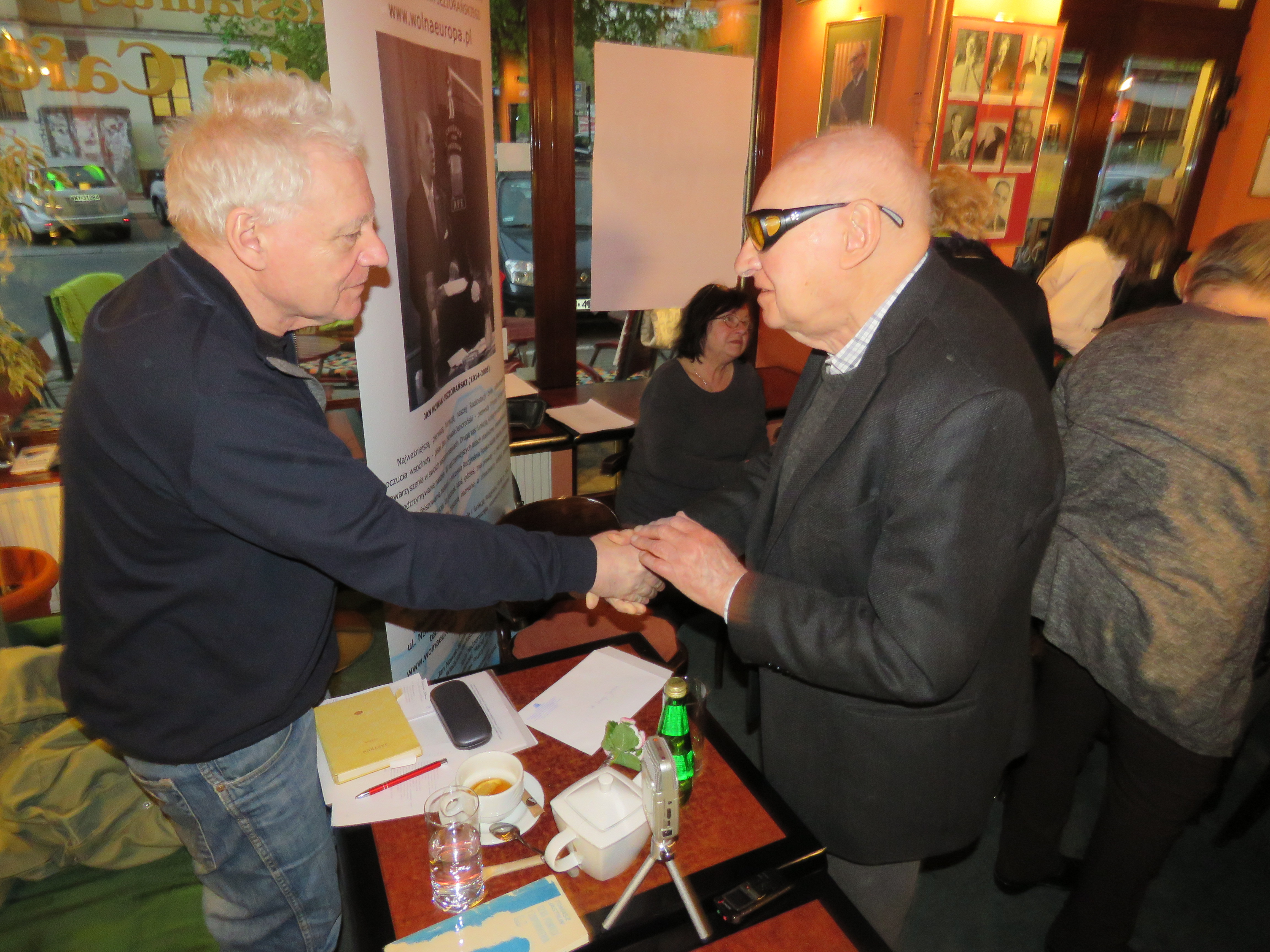 Jacek Bochenski (b. 1926) - Polish writer, essayist and publicist and Tomasz Jastrun (b. September 15, 1950 in Warsaw, Poland) - Polish writer, essayist and publicist. Son of Polish writers: Mieczyslaw Jastrun (1903-1983) and Mieczyslawa Buczkowna (1924-2015). He lives in Warsaw, Poland